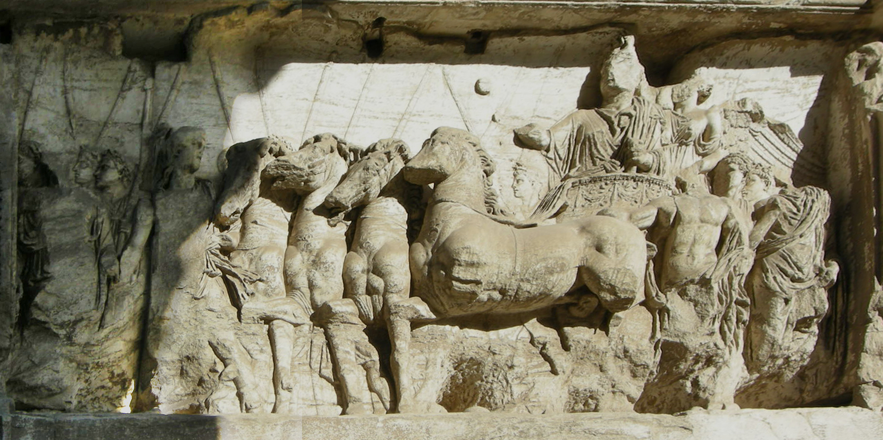 Arch of titus - imperial cortege